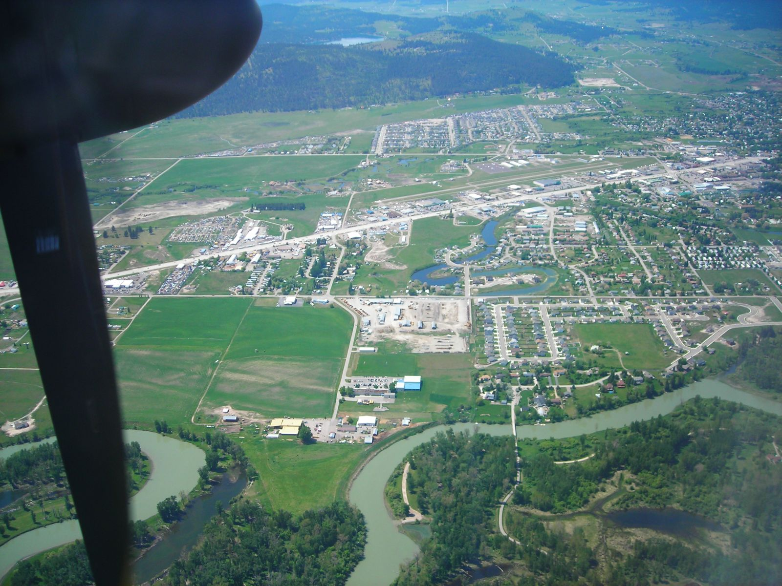 Just before landing at Glacier Park International Airport